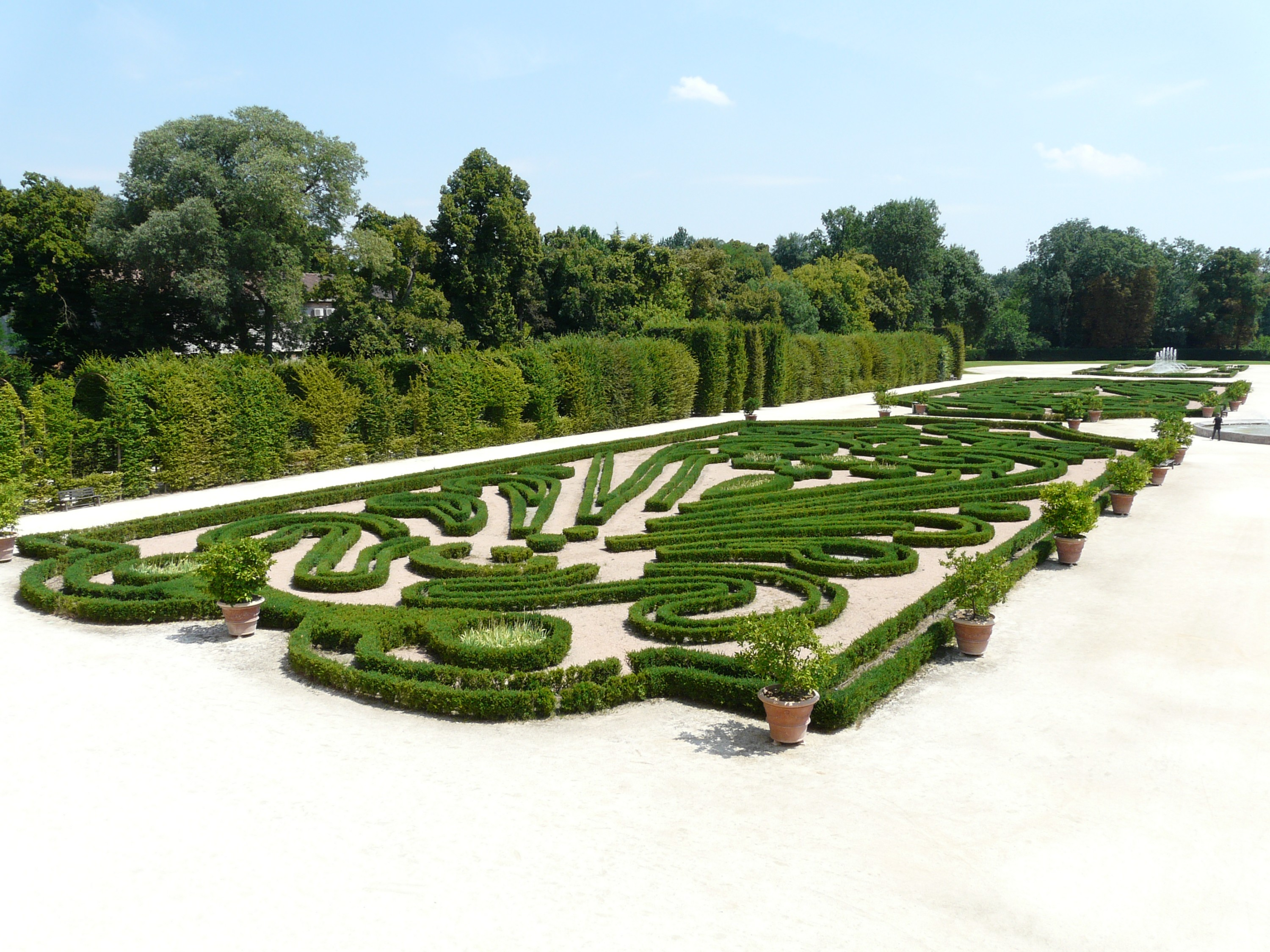 Baroque parterre gardens of Palazzo Ducale- in Colorno, Emilia-Romagna.